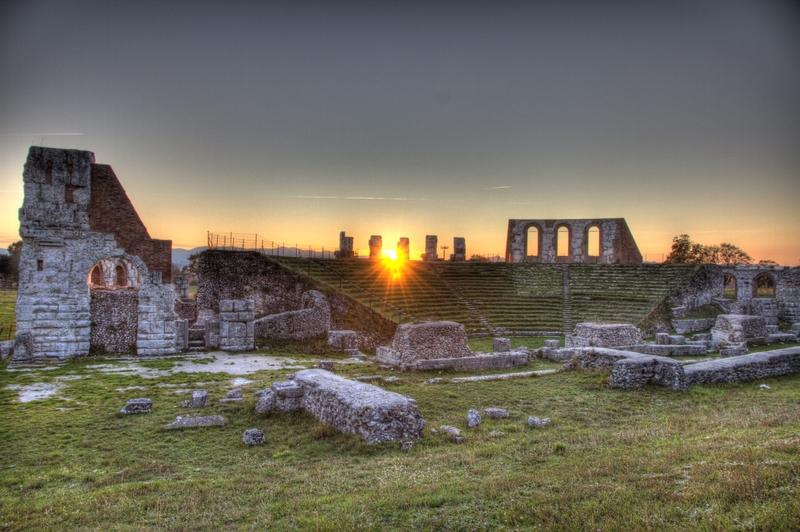 Gubbio Roman Theatre at sunset